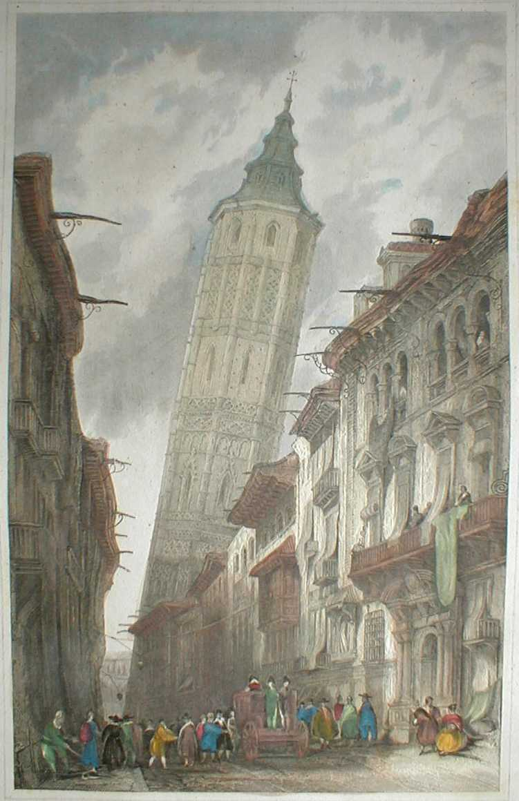 Title: Leaning Tower of Zaragoza Picturesque views in Spain and Morocco : comprising Granada, with the palace of the Alhambra, Andalosia, Castile, Valencia, Gibraltar, Tangiers, Tetuan, Morocco, the town of Constantina, etc. Year: 1838 (1830s) Authors: Roberts, David, 1796-1864 Roberts, David, 1796-1864, signer. UPB Subjects: Publisher: London : Robert Jennings Text Appearing Before Image: &M Text Appearing After Image: ... JniHxry •